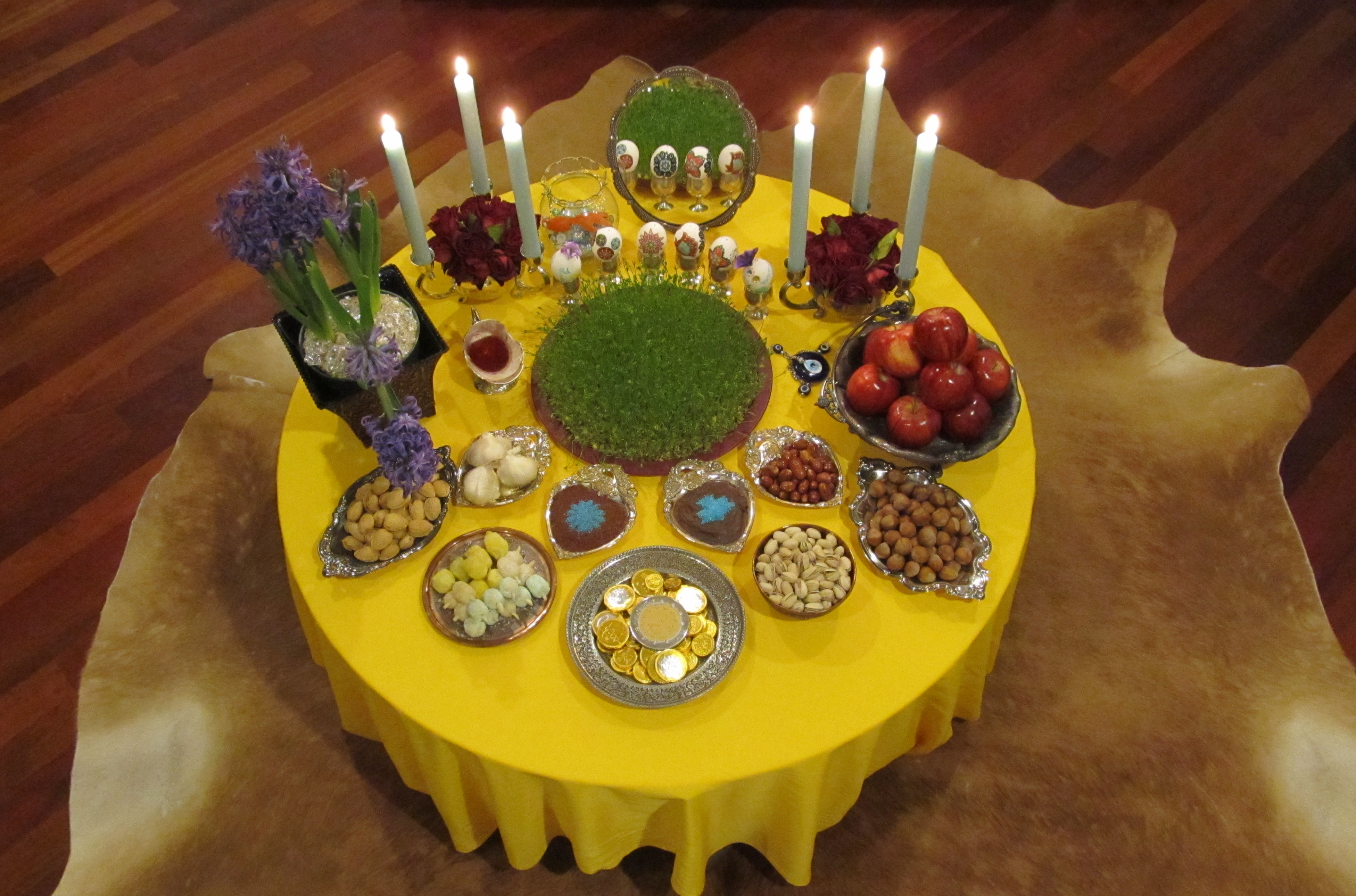 a Haft-Seen table